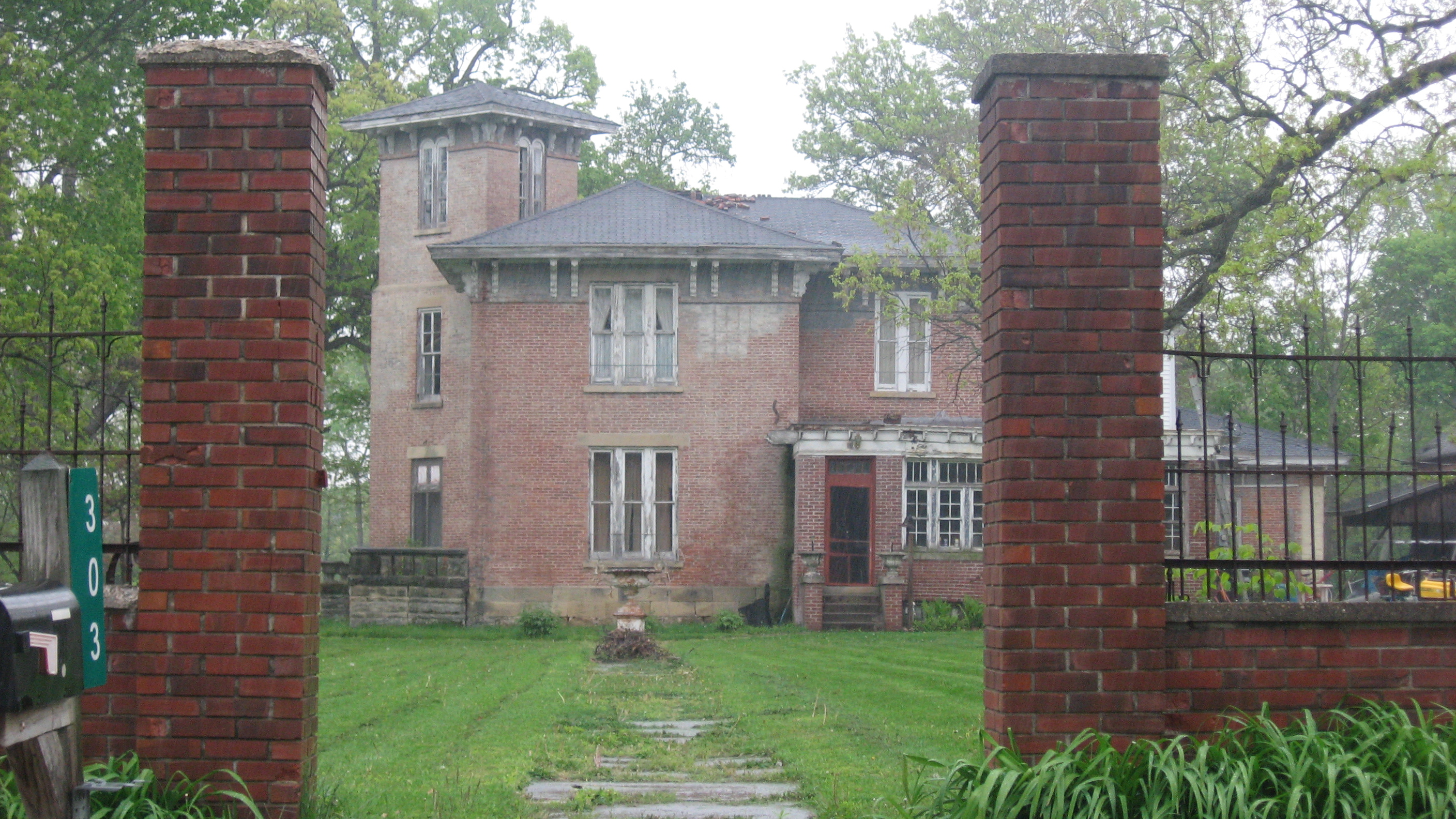 Front of the Hitchens House, located at 303 Lincoln Street in Williamsport, Indiana, United States. Built in 1854 and since converted into an antiques shop, it and its nearby twin, the Kent House, are listed together on the National Register of Historic Places.